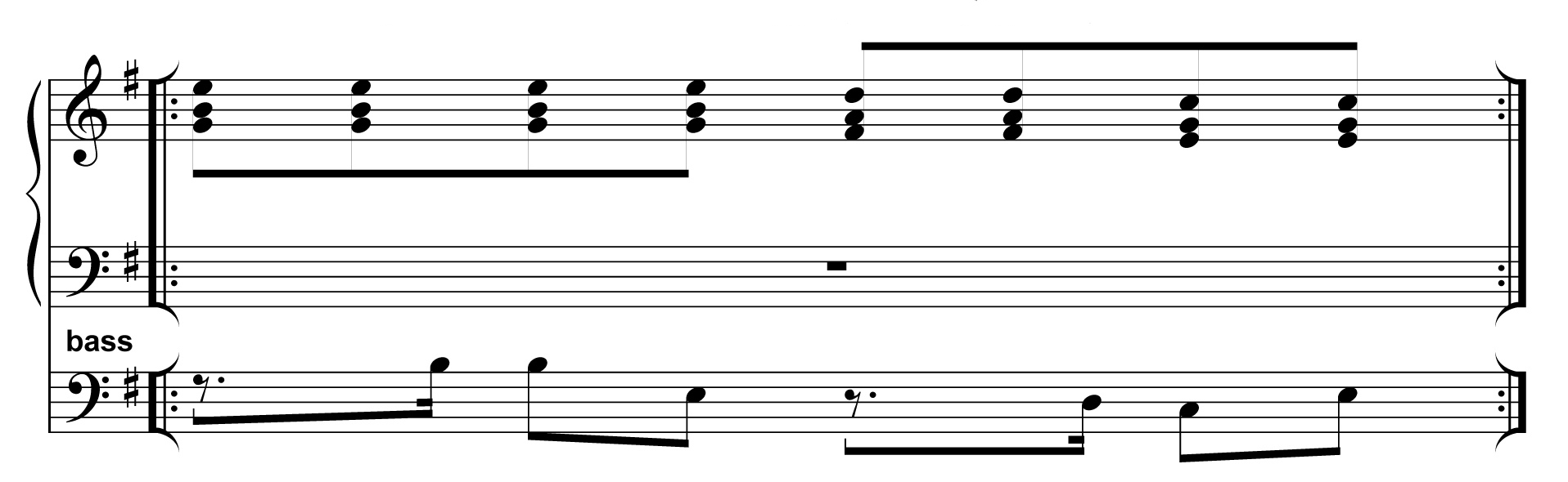 the rock and roll side of songo